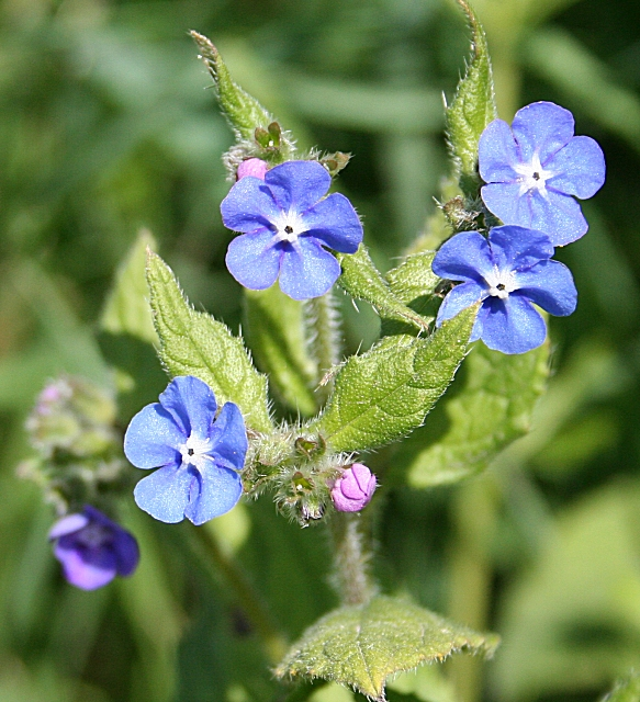 Green Alkanet (Pentaglottis sempervirens) I've always thought this was a curious name for a plant with such vivid blue flowers. The flower buds start off pink and gradually change colour as they open. Growing on a grassy bank by the side of the road.